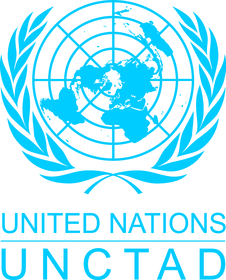 United Nations Conference on Trade and Development UNCTAD official logo